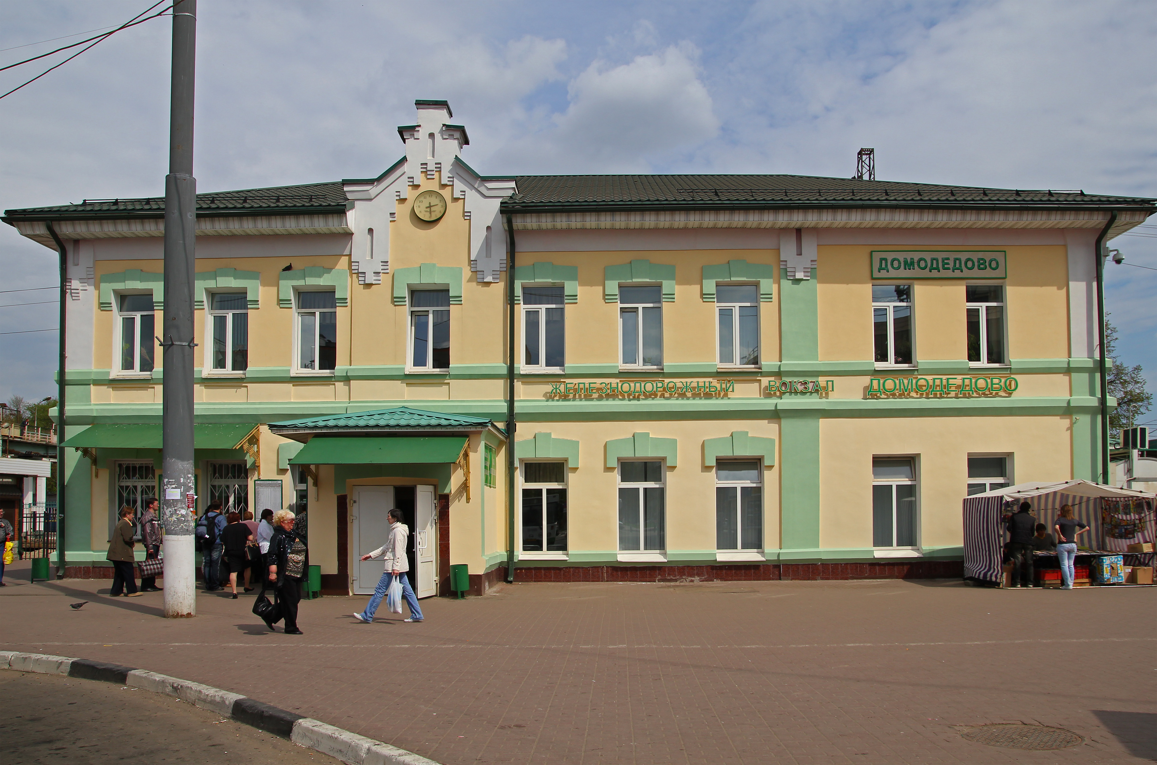 Train station Domodedovo in Moscow Oblast